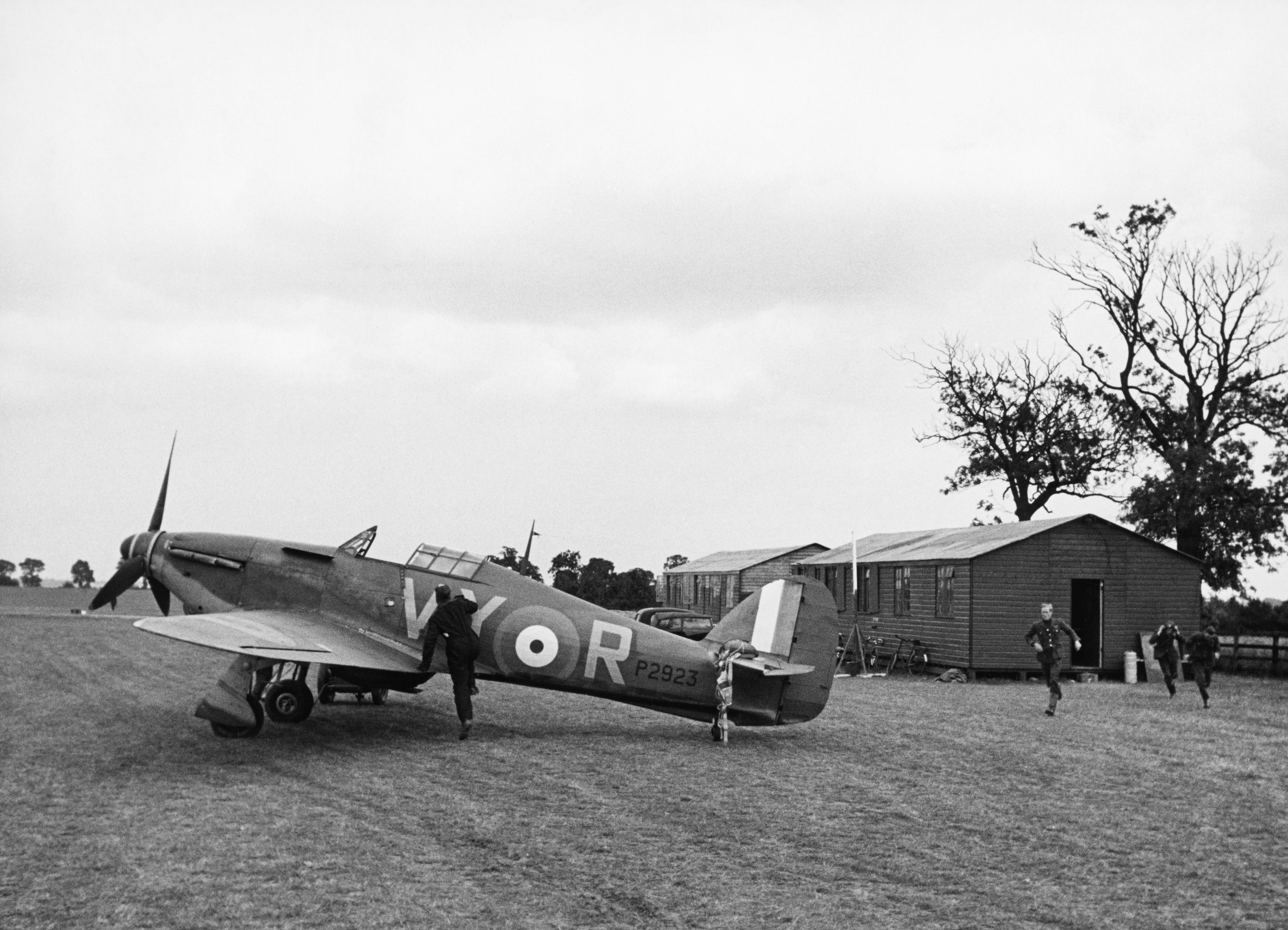 RAF Fighter Command 1940 Pilots of No. 85 Squadron run to their Hurricanes at the satellite landing ground at Castle Camps, July 1940. In the foreground is P2923 VQ-R, flown by Plt Off Albert G Lewis.